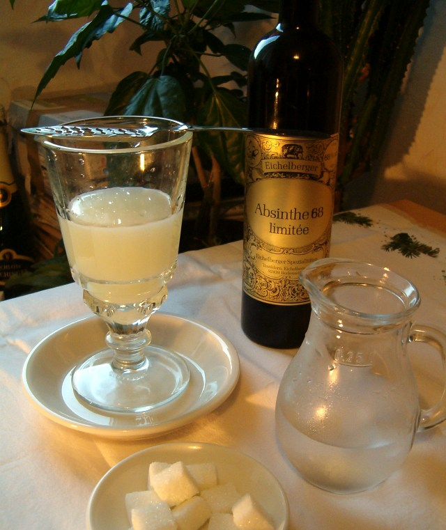 A glass of naturally coloured verte absinthe after dilution, with basic absinthe paraphernalia.